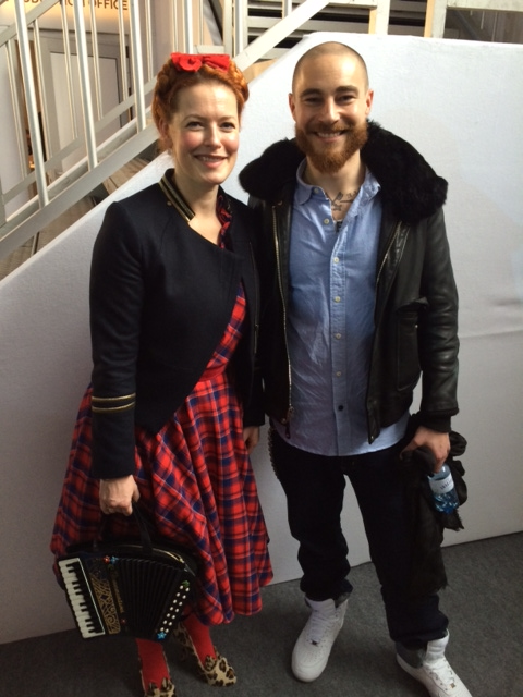 Christian von der Heide and Enie van de Meiklokjes visiting Mercedes Benz Fashion Week Berlin, January 2014